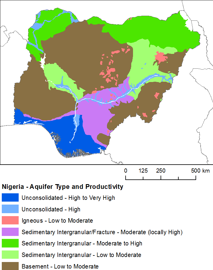 This file was uploaded as part of a Wikimedia UK partnership with the British Geological Survey. For more information please This tag does not indicate the copyright status of the attached work. A normal copyright tag is still required. See Commons:Licensing. Hydrogeology of Nigeria. This map was developed for the Africa Groundwater Atlas, 2019. It is is based on a 1:5 million scale map of geology, oil and gas fields and geologic provinces of Africa (Persits et al., 2002), which in turn was based on a map published in 1964 by UNESCO (Furon and Lombard 1964).